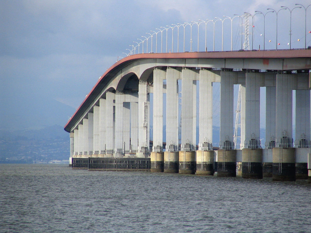 The San Mateo – Hayward Bridge is a bridge crossing California's San Francisco Bay in the United States